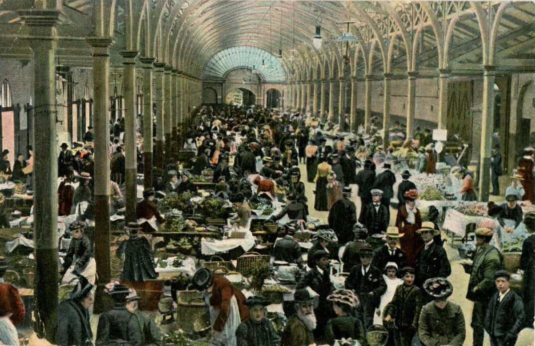 Photographic postcard of the Pannier Market at the Guildhall, Barnstaple in Devon.